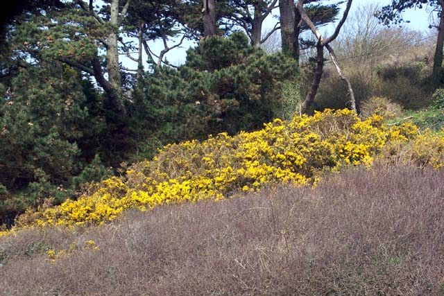 Gorse on the hillside near St. Mawes Castle